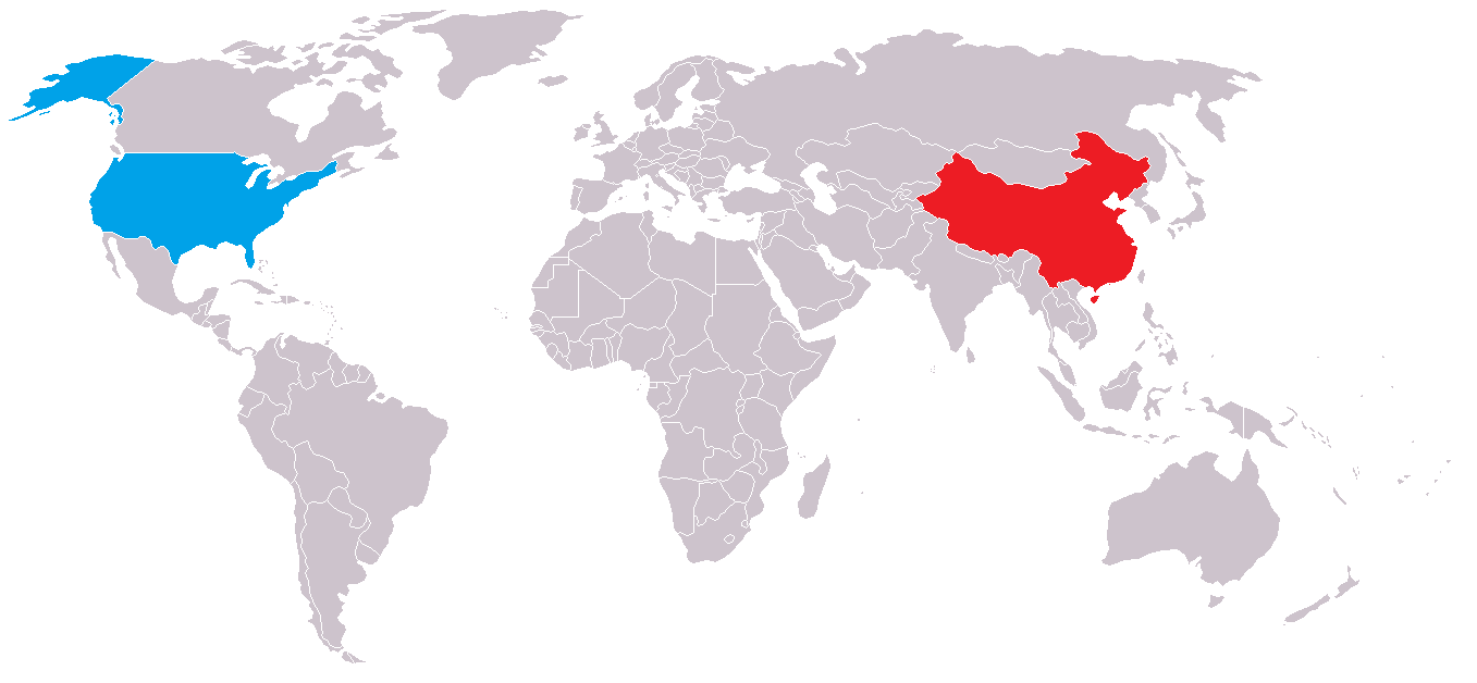 Created by me, for use in Sino-American relations article, Aris Katsaris 11:44, 21 January 2006 (UTC)